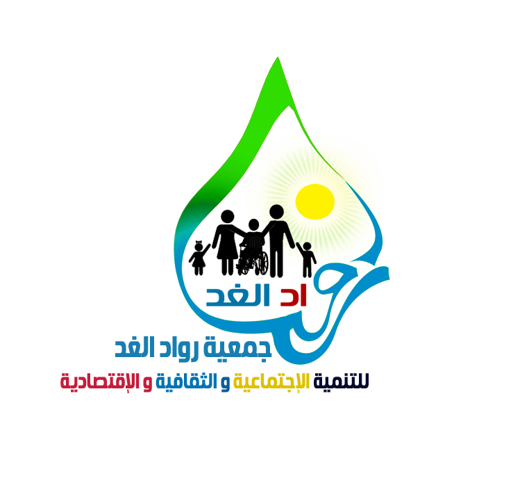 جمعية رواد الغد لتنمية